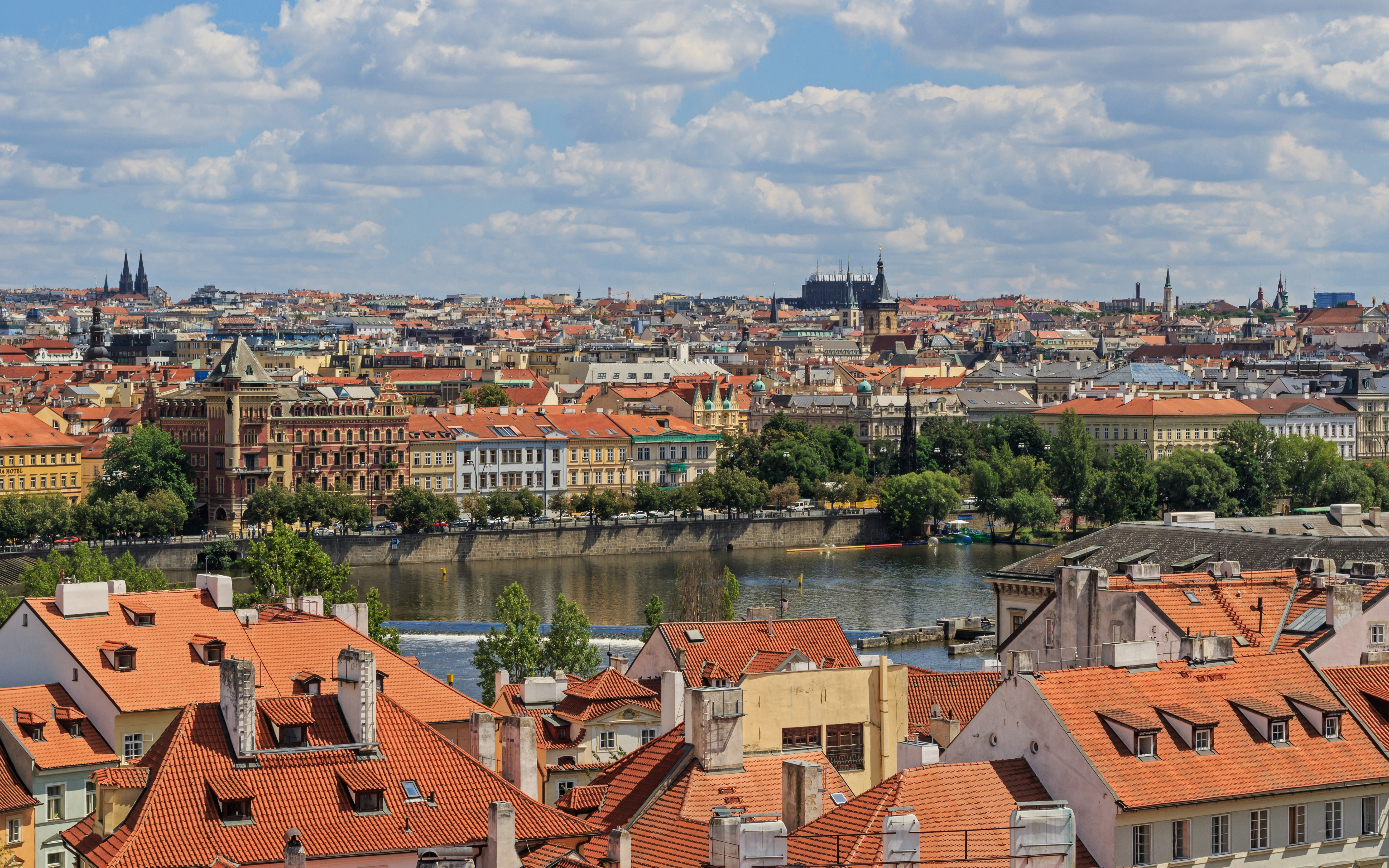 View from the Lesser Town tower of Charles Bridge in Prague (Czech Republic)